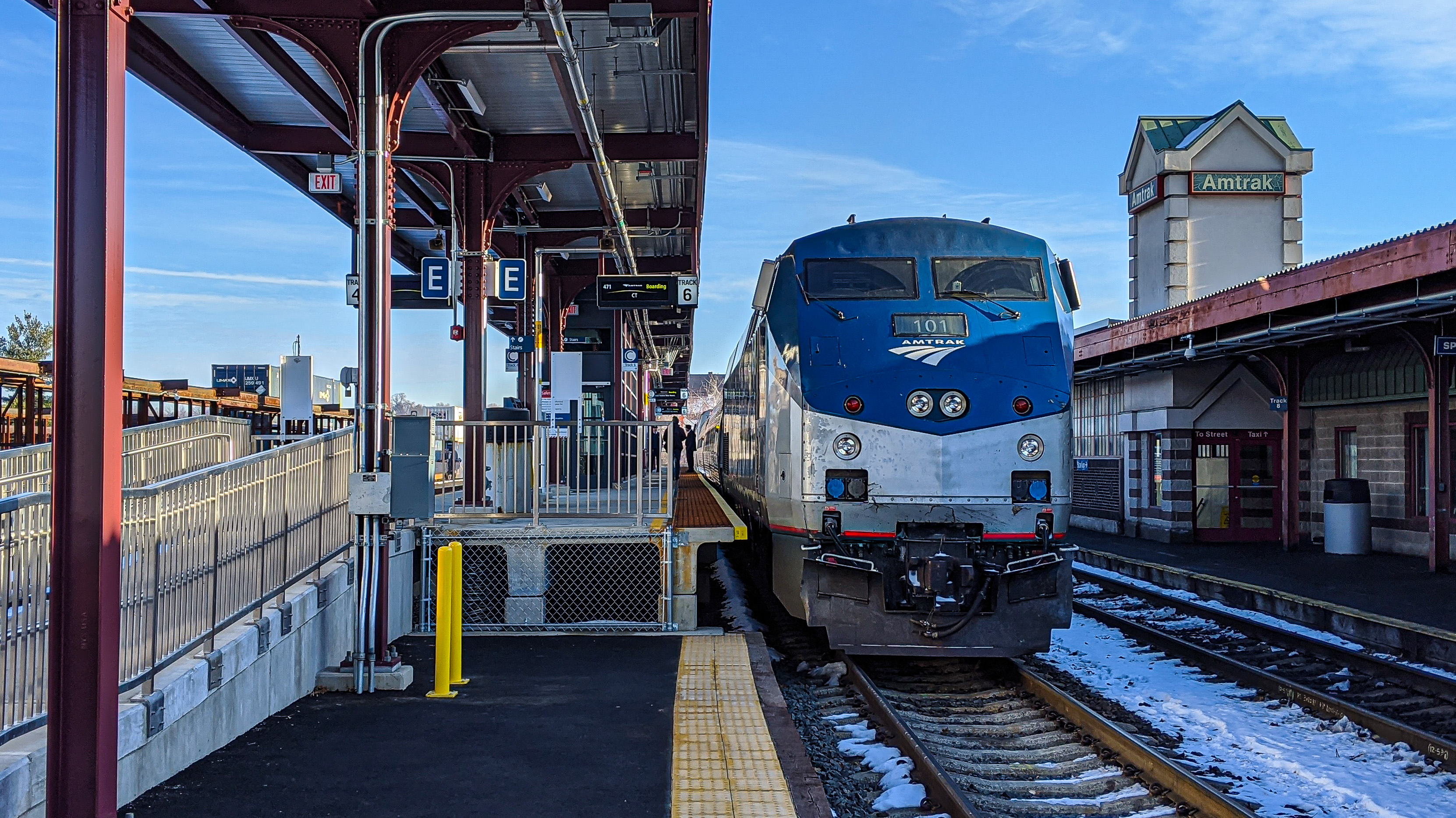 Amtrak train 471, the Valley Flyer, waiting for departure at Springfield Union Station on Friday morning, January 24, 2020. The train is waiting at Platform C, track 6 at the station. Platform C is the new 512- foot long high-level platform at the station.